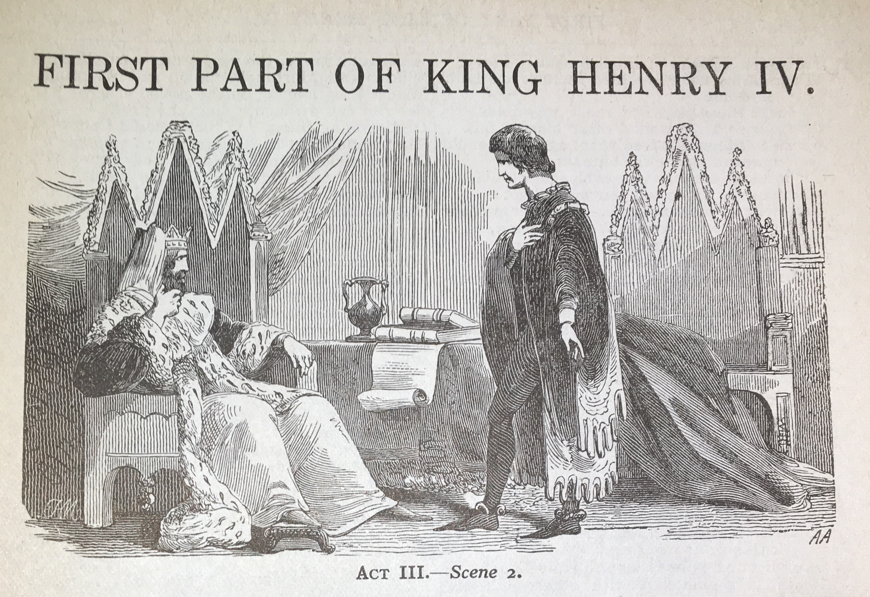 A lithograph image depicting a scene from King Henry IV Part I